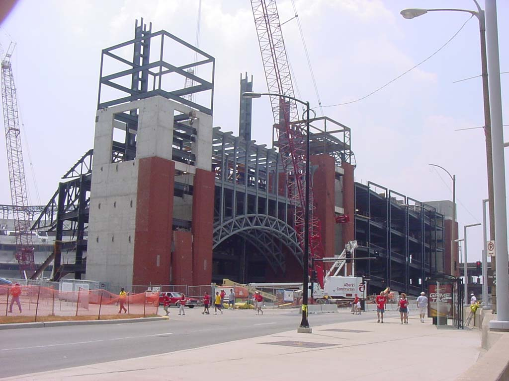 Picture taken by Chris Hertling (CHertling) 6/26/05 from the St. Louis MetroLink station adjacent to new Busch Stadium Copyright (c) 2005 Chris Hertling Permission is granted to copy, distribute and/or modify this document under the terms of the GNU Free Documentation License, Version 1.2 or any later version published by the Free Software Foundation; with no Invariant Sections, no Front-Cover Texts, and no Back-Cover Texts. A copy of the license is included in the section entitled "GNU Free Documentation License". 06:37, 9 July 2005 . . Chertling . . 1024 × 768 (102,994 bytes)